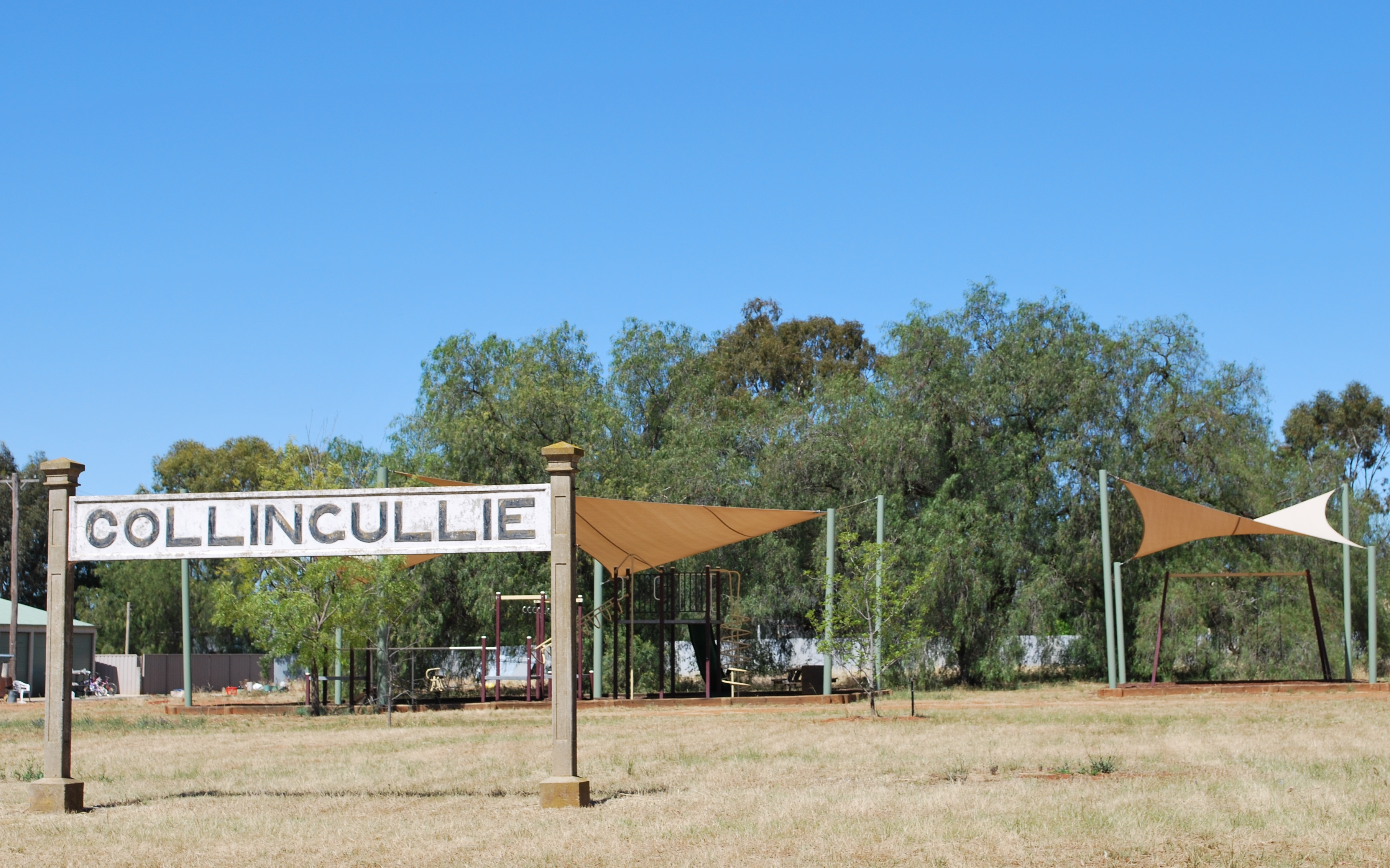 Park and old railway sign at Collingullie, New South Wales